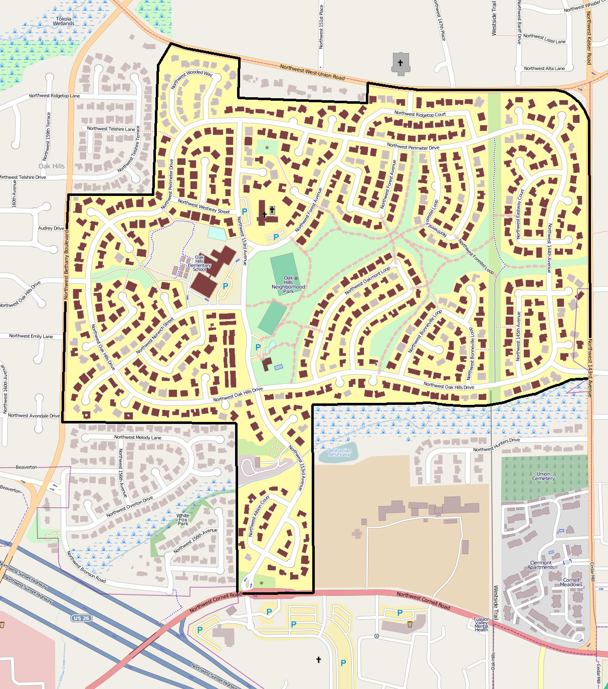 Map showing the boundaries of the Oak Hills Historic District in Beaverton, Oregon, United States. The historic district is listed on the US National Register of Historic Places. Boundary data is derived from the historic district's National Register nomination form. Black boundary/yellow area: Oak Hills Historic District boundaries. Brown shading: Buildings listed as contributing resources in the historic district. (Note: The nomination document is unclear whether the waterworks building at 2085 NW 153rd Avenue is or is not designated as a contributing resource. On this map, it is shown as noncontributing.) Brown asterisks: Contributing resources other than buildings.